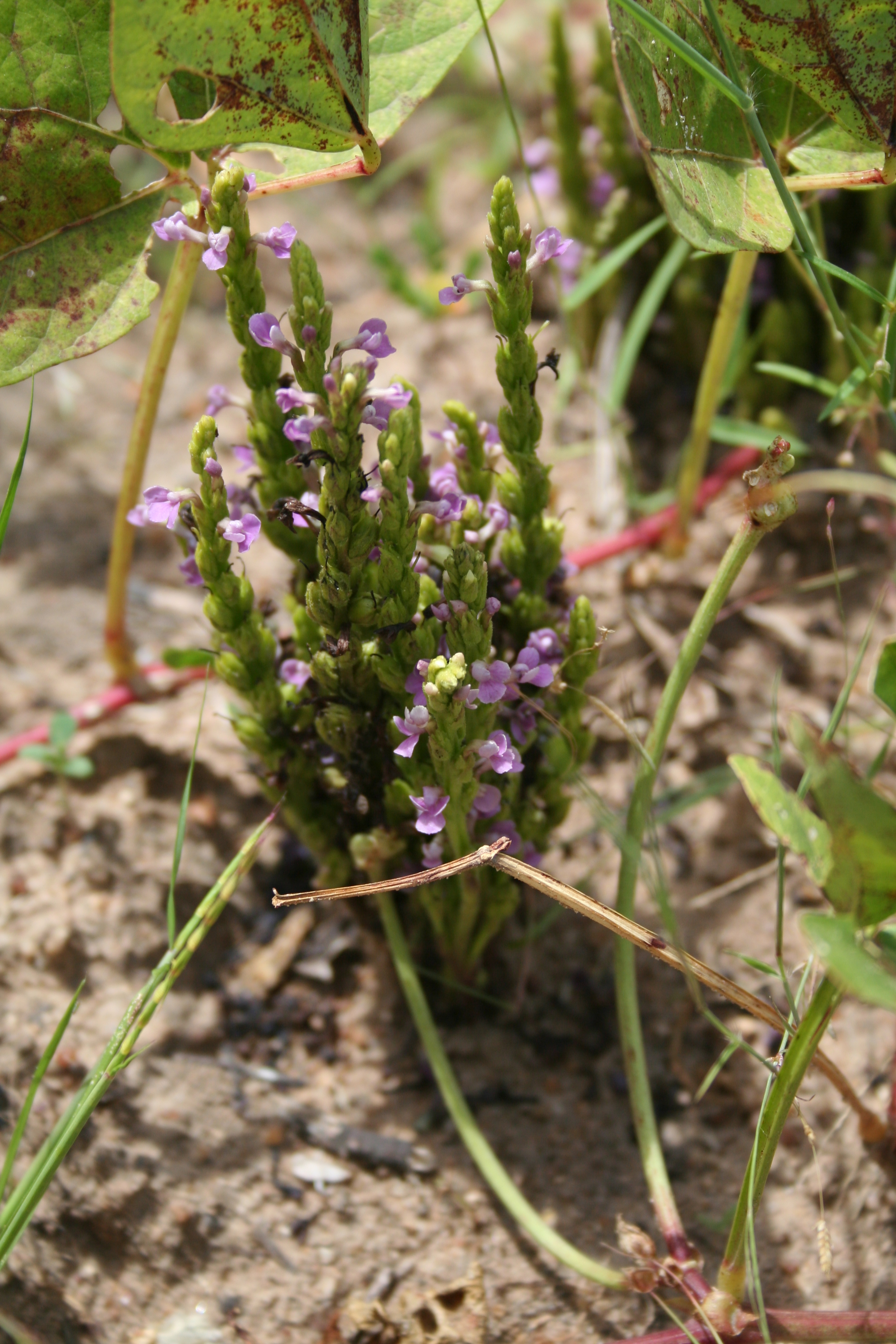 Striga gesnerioides in a field in Tambaga, Prov. Tapoa, S Burkina Faso